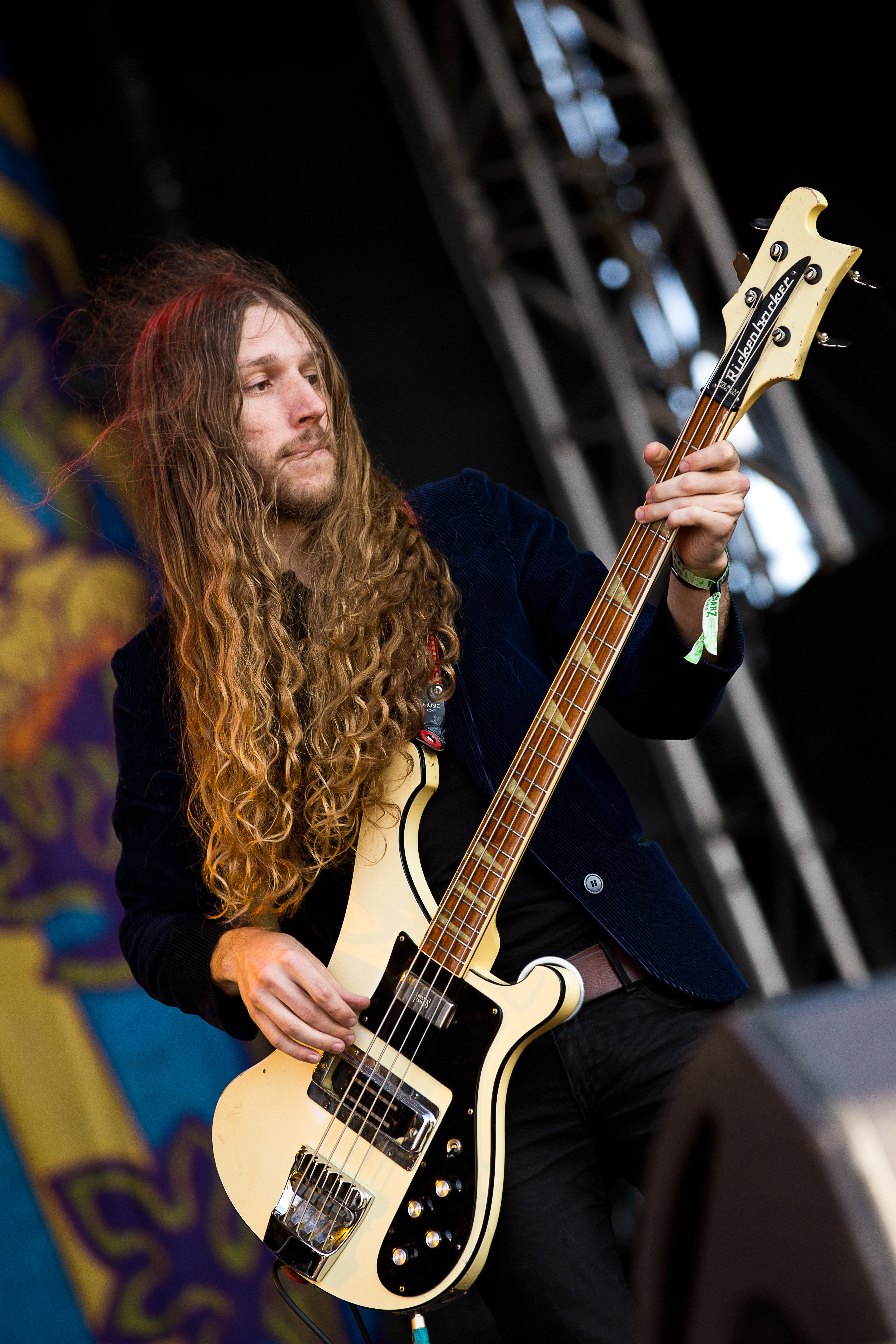 The Swedish blues rock band Blues Pills at the Rockharz Open Air 2015 in Ballenstedt/Germany.